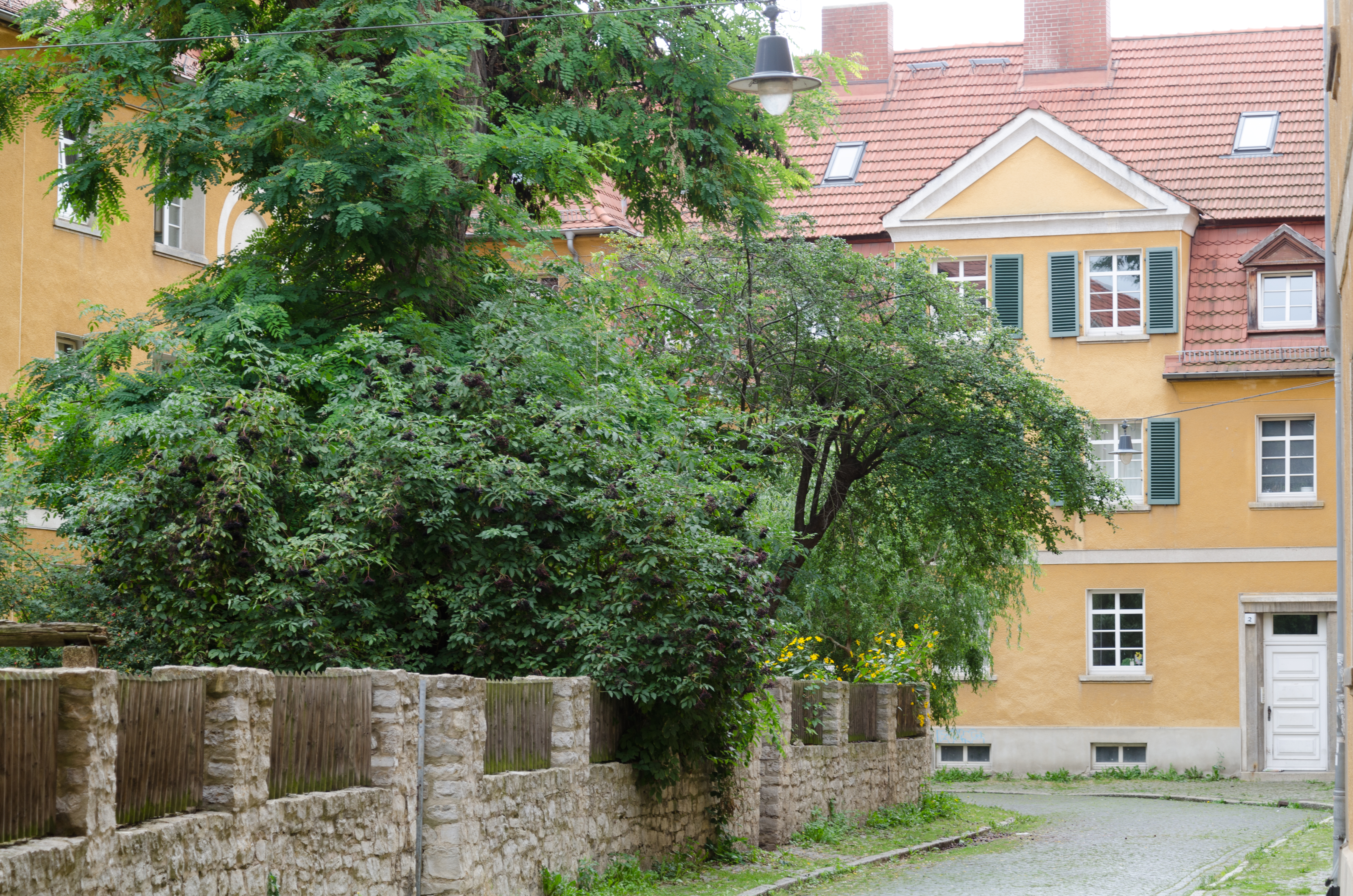 Erfurt, Mortizhof 2